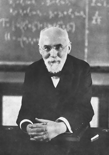 Hendrik Lorentz, a Dutch physicist, in front of a blackboard with tensor formulas from Einstein's general theory of relativity in Lorentz' handwriting.